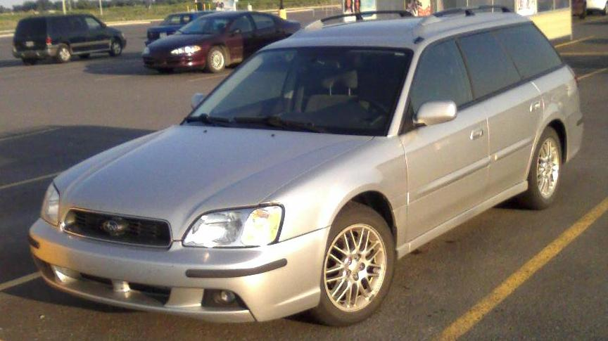 2003-2004 Subaru Legacy photographed in Vaudreuil-Dorion, Quebec, Canada.